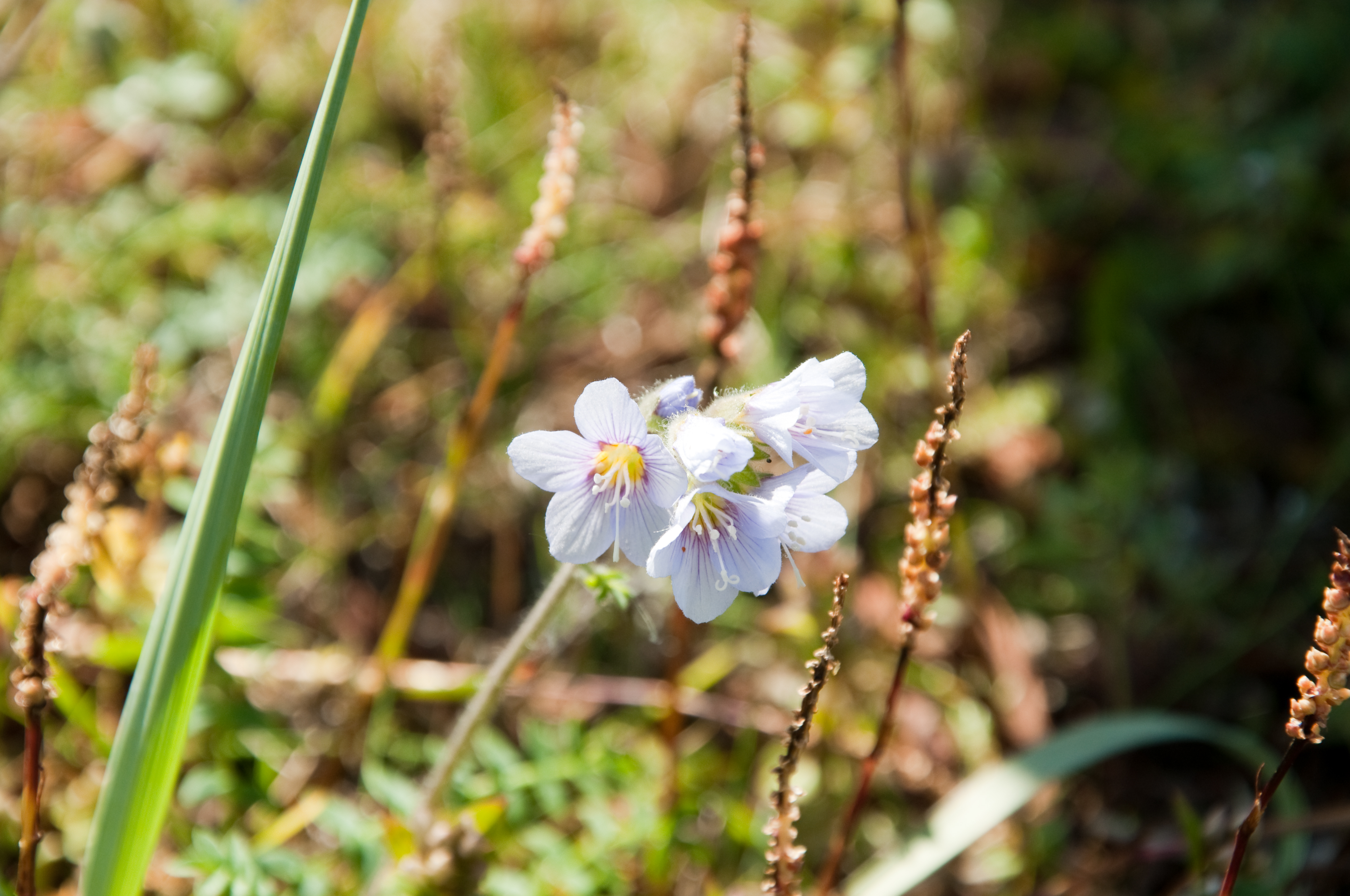 Polemonium boreale in Bygoynes in Norway